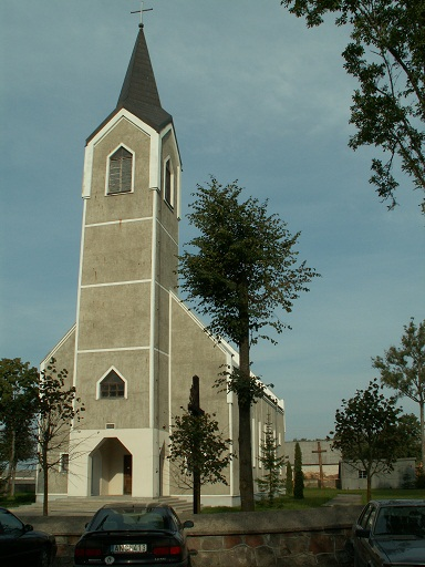 Kretinga district, LithuaniaLietuvių: Jokūbavo bažnyčia, Kretingos rajonas, Lietuva